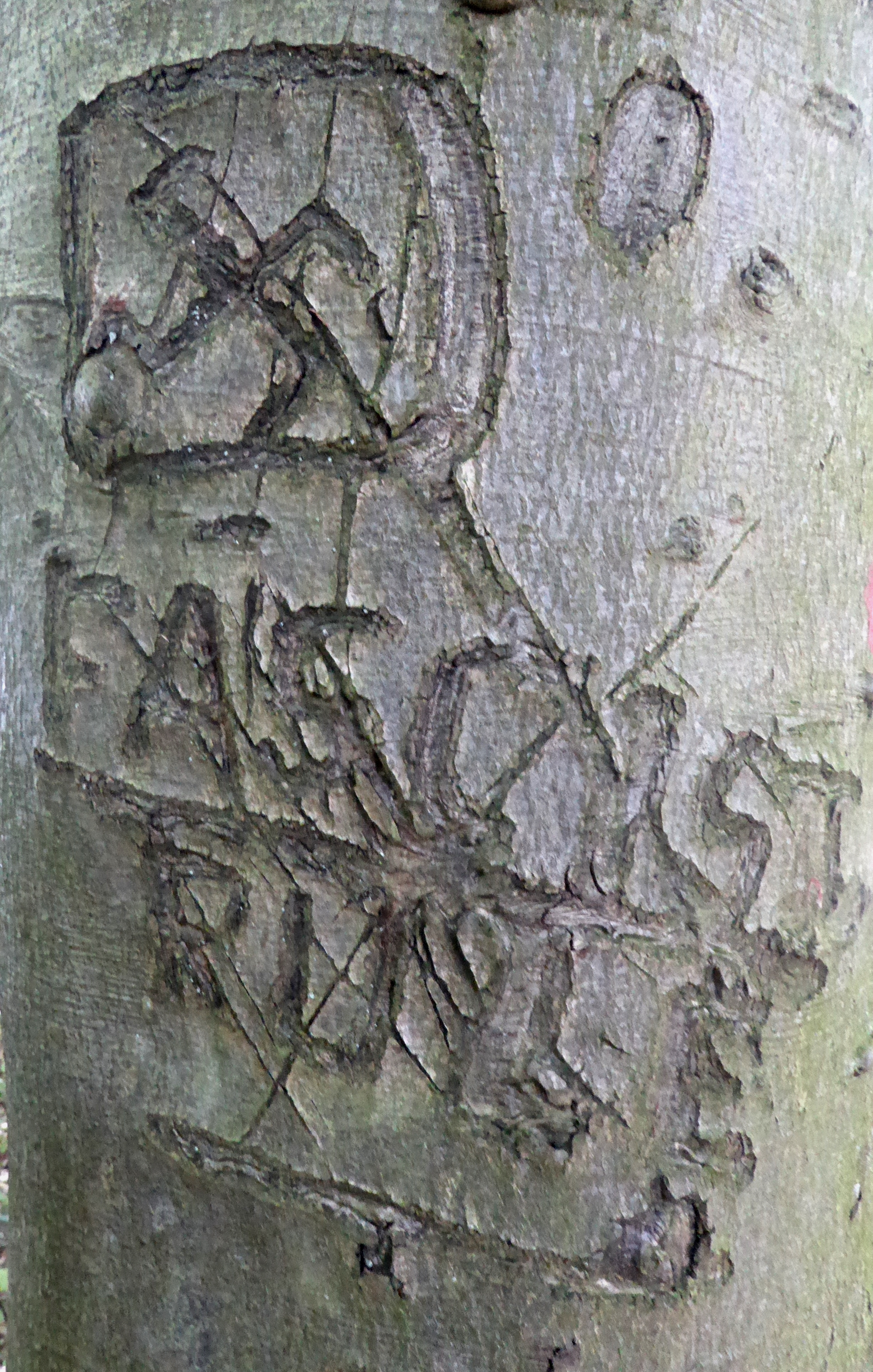 Fascist graffiti on a tree in Standish Wood, Gloucestershire, including the slogan "FASCIST RULE" and a Nazi swastika. Attempts have been made to scratch out the graffiti, likely by someone seeking to reject its message.